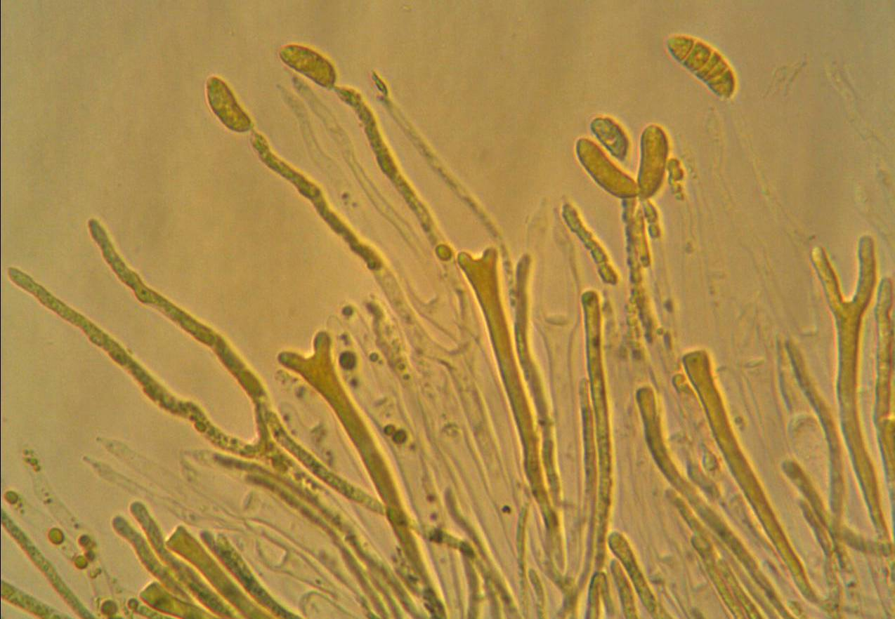 Dacrymyces chrysospermus Berk. & M.A. Curtis